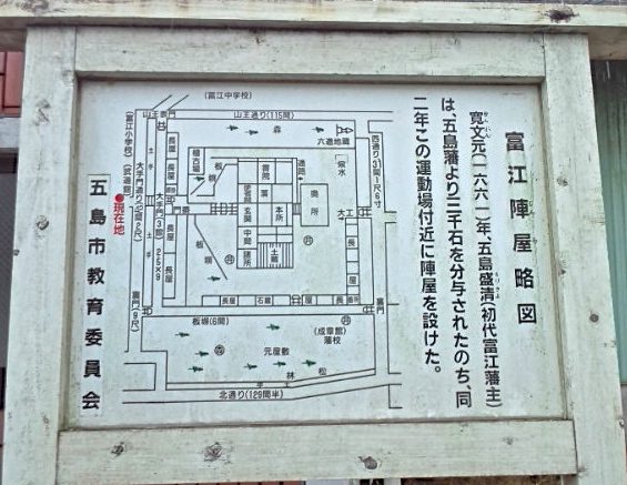 Map of Tomie castle